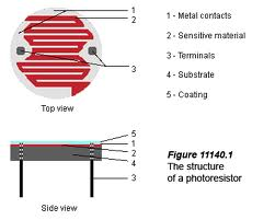 Structure of photoresistor